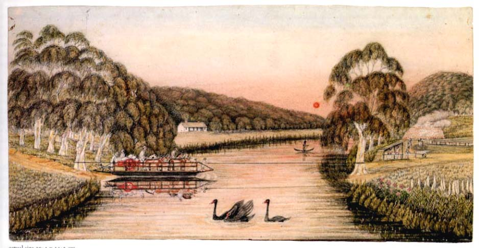 punt road crossing, Melbourne,1838 by WLiardet, 1838